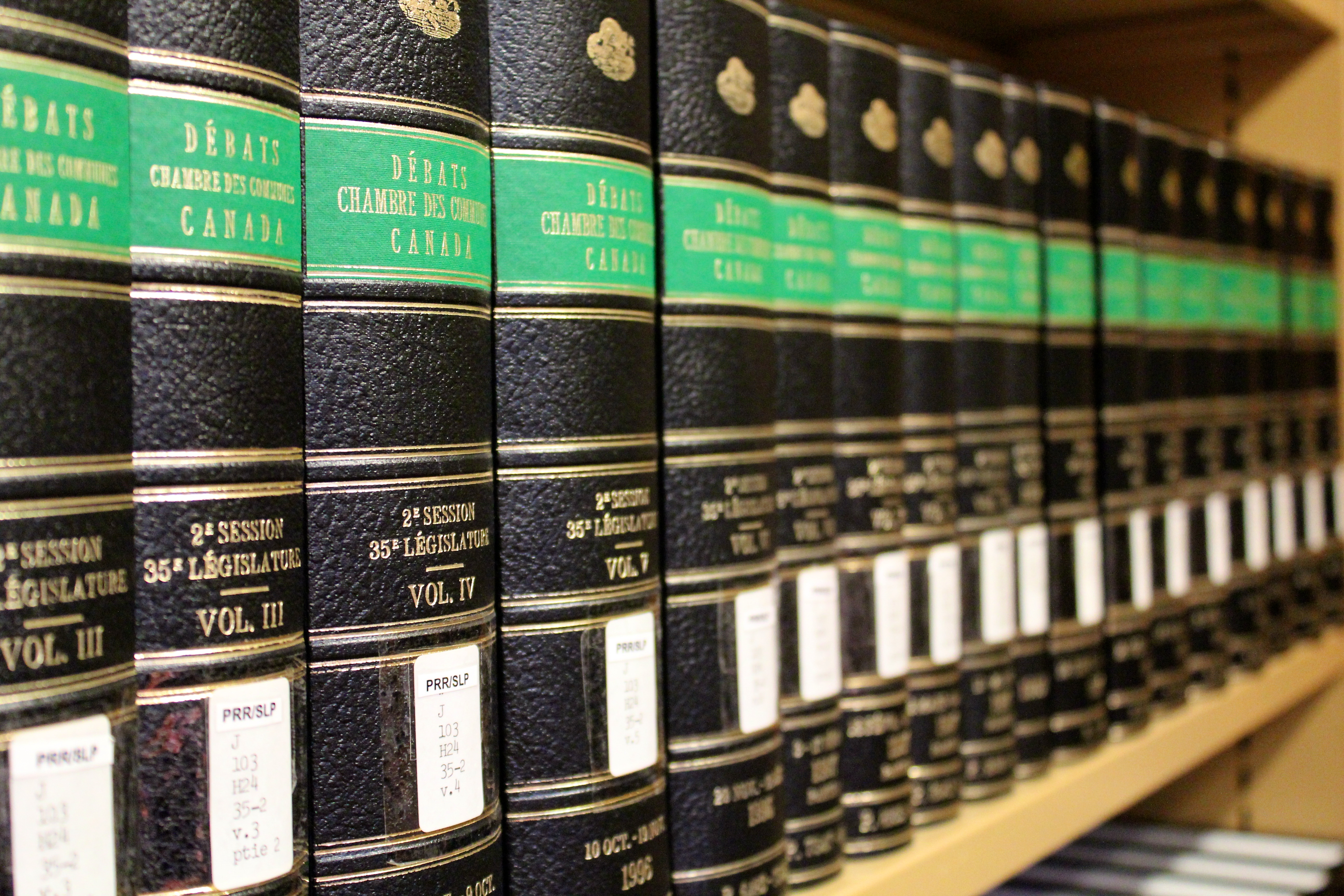 Row of French House of Commons Debates: Official Report.